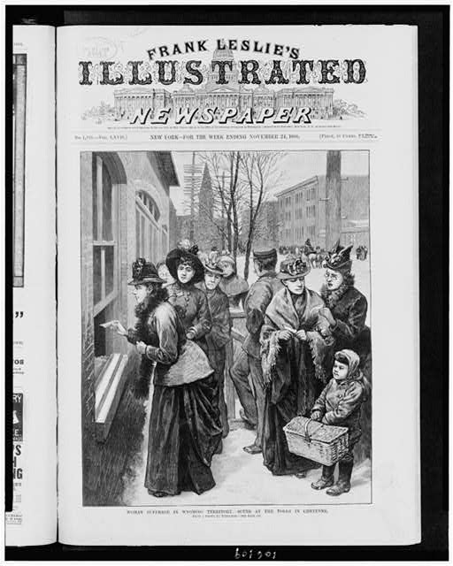 Woman suffrage in Wyoming Territory. Scene at the polls in Cheyenne / from a photo. by Kirkland.